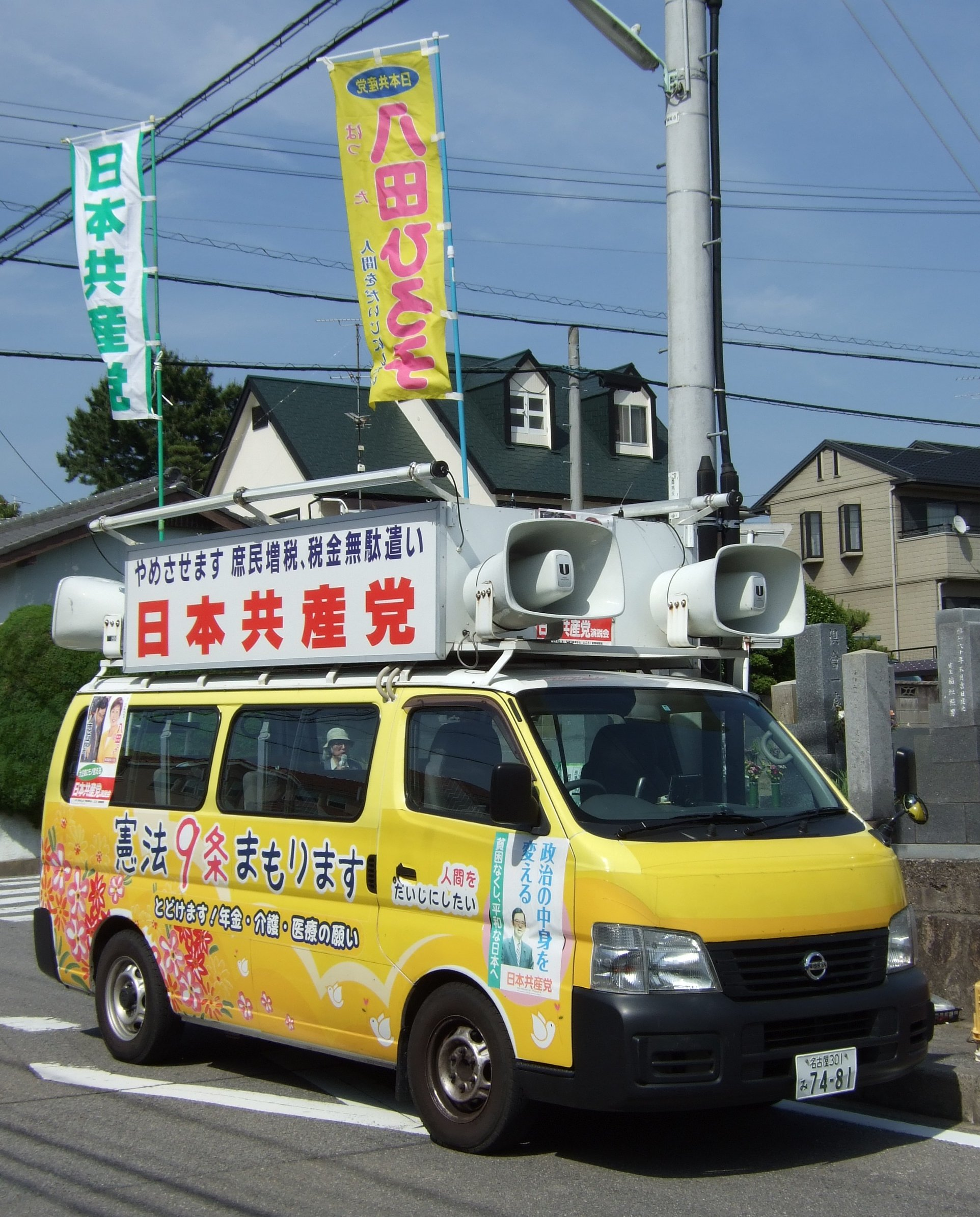 Nissan Caravan political sound truck of Japanese Communist Party seen in Okazaki, Aichi, Japan.